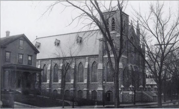 St Mary's Church and rectory in Dedham, Massachusetts. The rectory was torn down in 1913 and the stairs of the church were reconfigured in the 1920s. This photo shows the original of both.